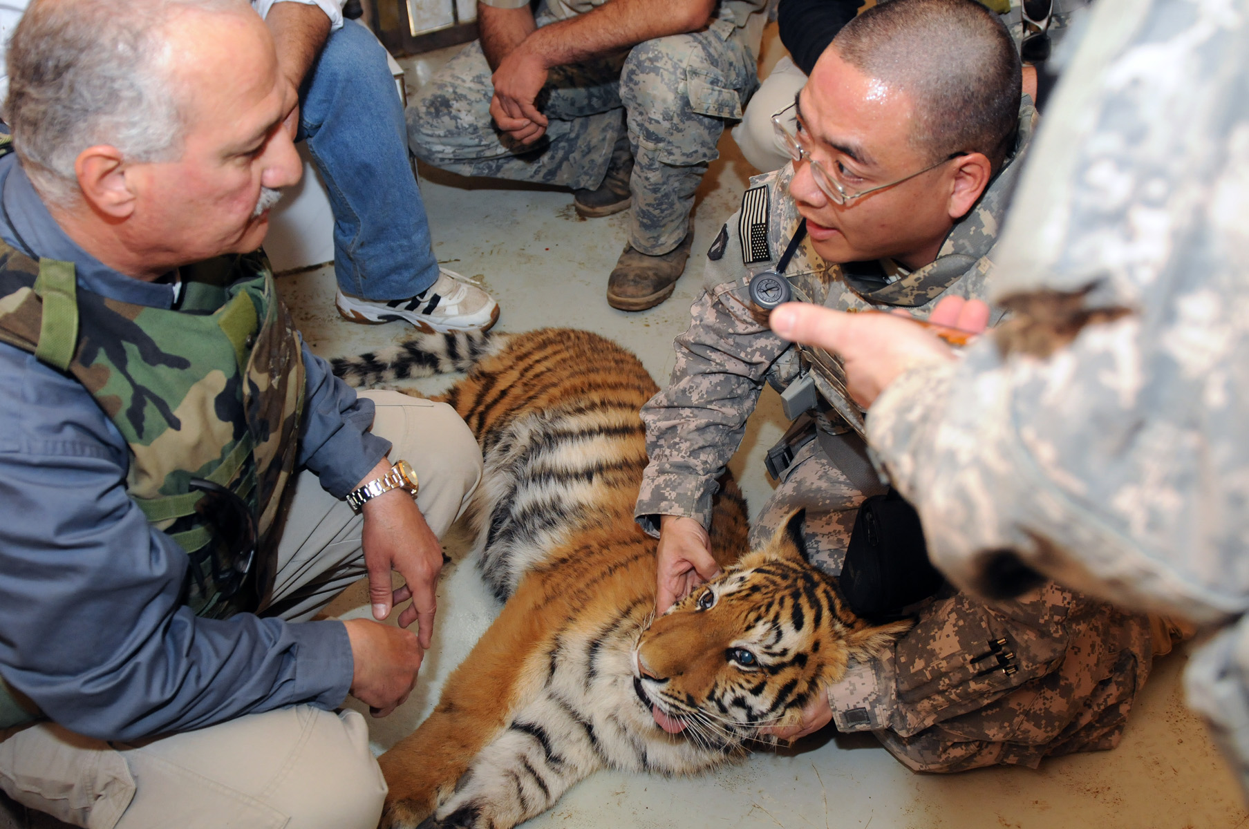 A sedated tiger cub gets a medical check-up from Dr. Mewafak Raffo, left, a veterinary advisor assigned to 1st Armored Division, and Maj. Matt Takara, commander 51st Medical Detachment Veterinary Medicine, 248th Medical Detachment Veterinary Services, March 24, at the Baghdad zoo. The zoo has been a program of partnership between Iraqi zoo workers and U.S. forces for the past few years. See more at Iraqi, U.S. veterinarians partner to help Baghdad zoo animals